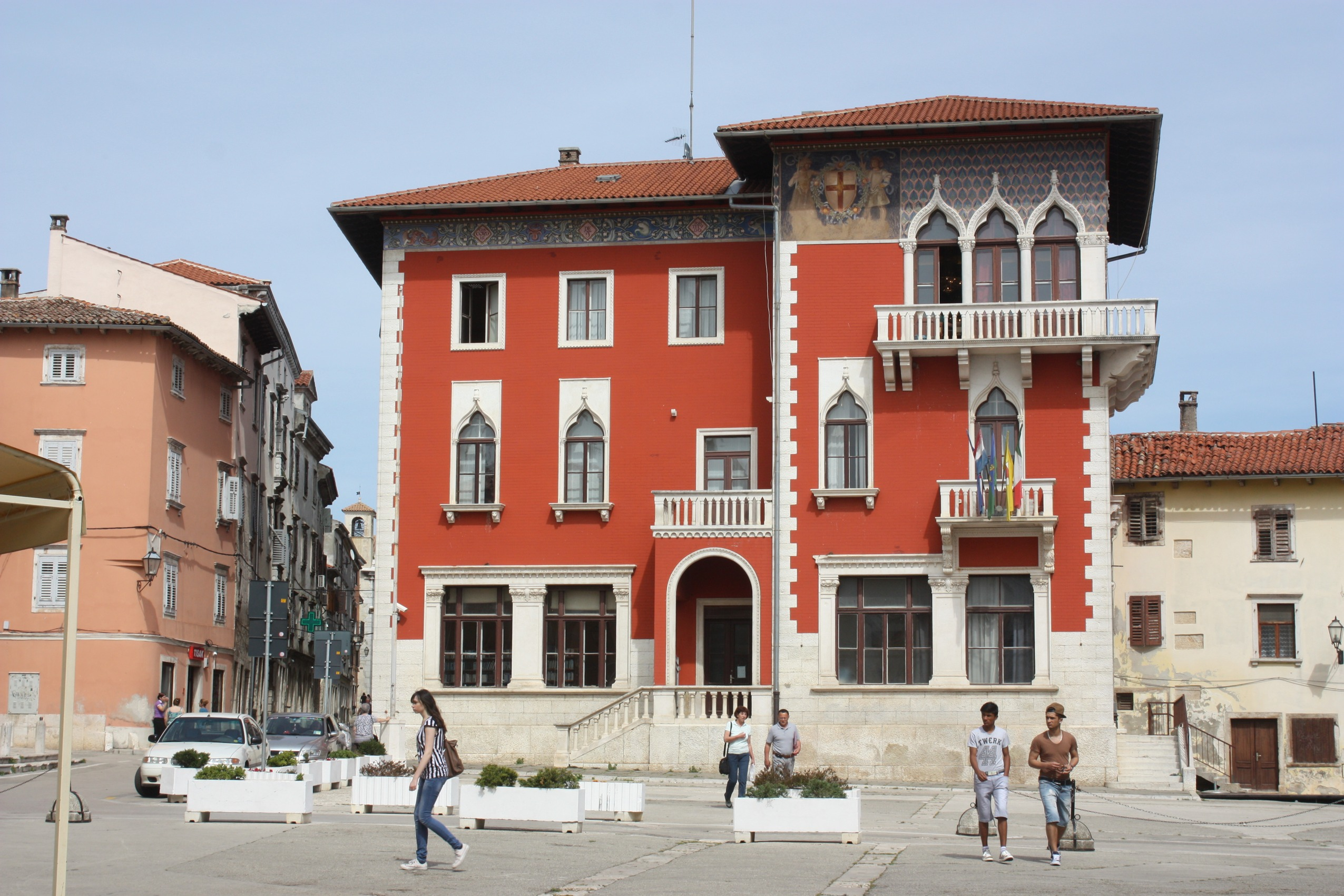 Vodnjan, palace on the Narodni trg